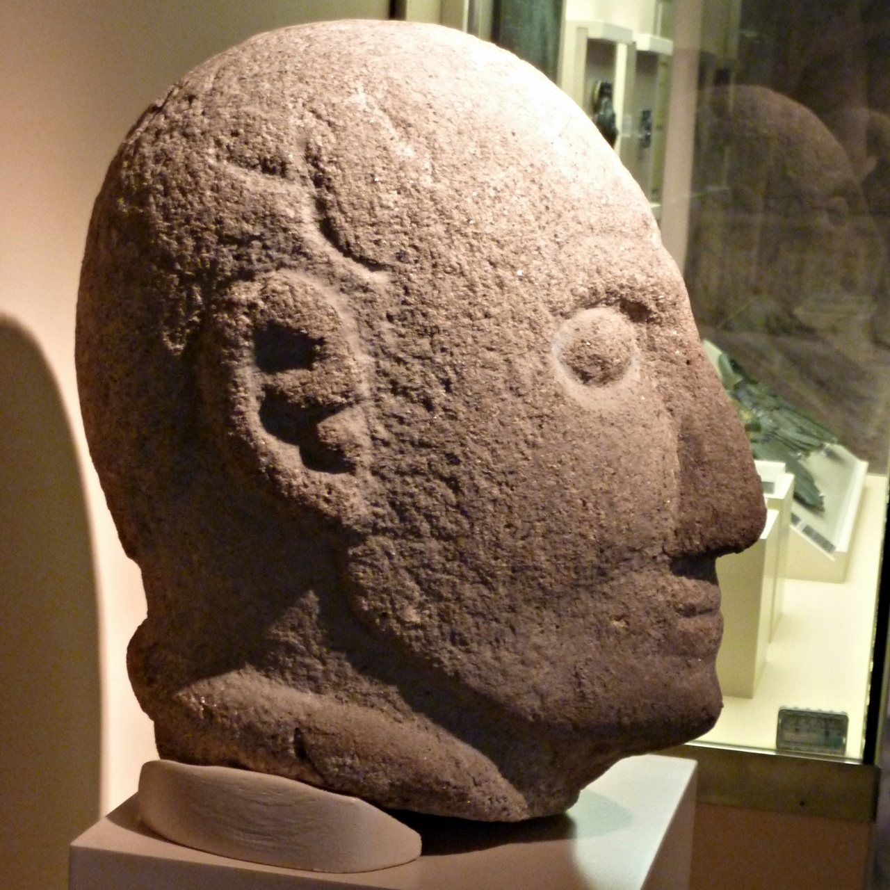 Head of an stone Iron Age warrior, wearing a torc. Now, in the Museo Provincial de Ourense.